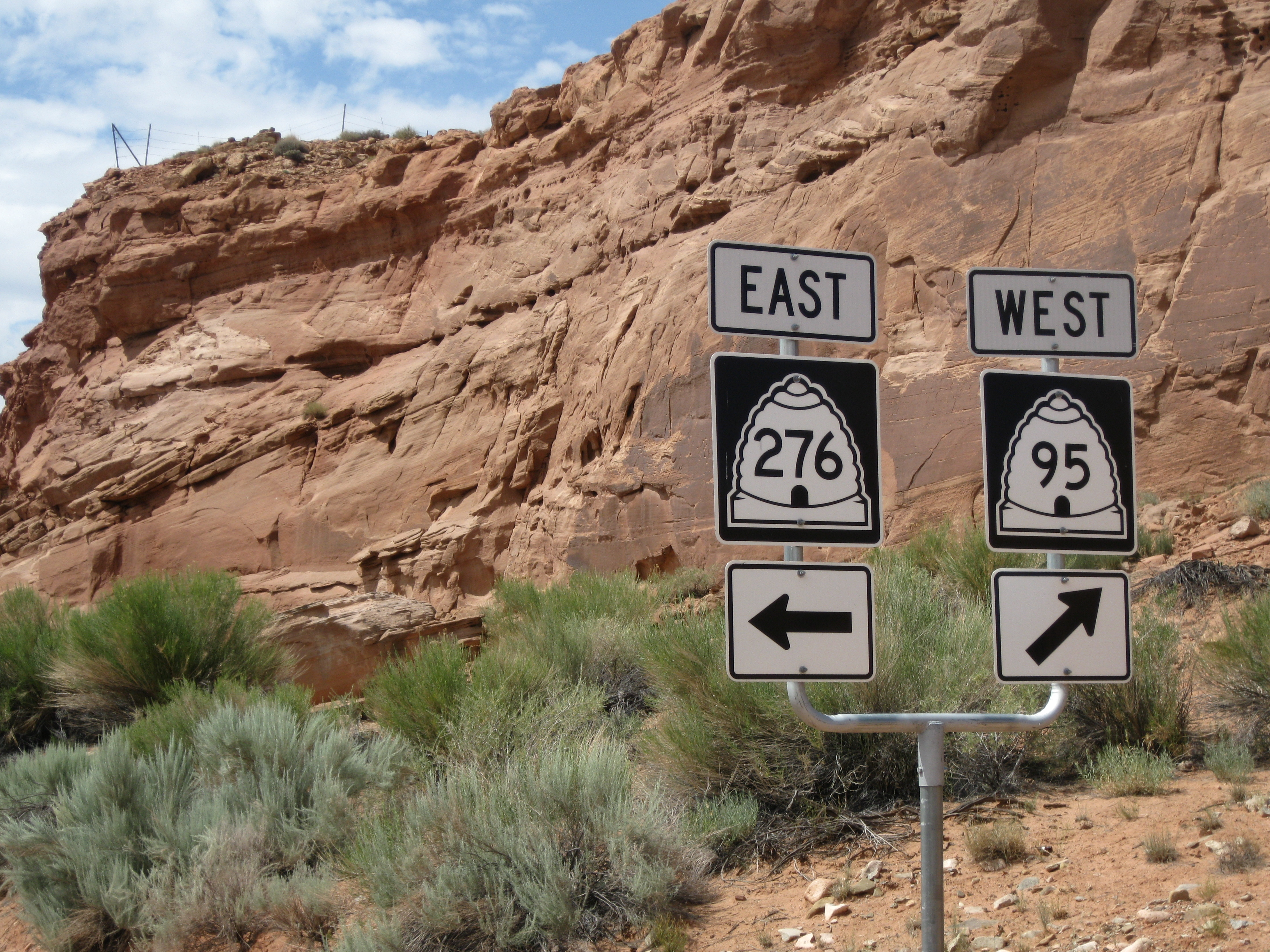 Utah State Routes 95 and 276